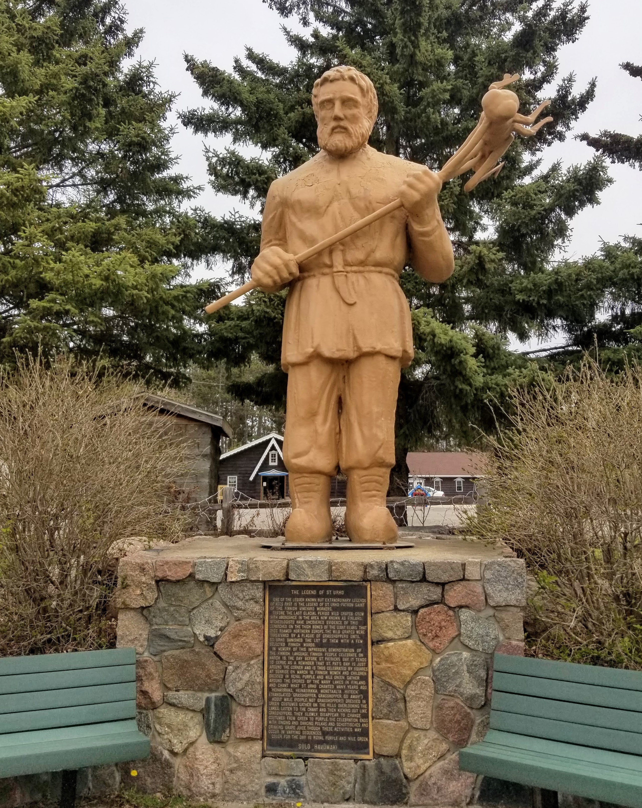 12-foot-tall fiberglass sculpture of fictional character St. Urho, located in Menahga, Minnesota. St. Urho is carrying a pitchfork with a skewered grasshopper.